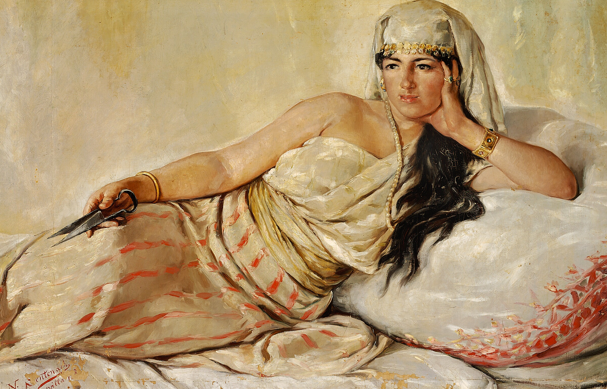 The auction catalogue suggests that the woman may be Delilah, with scissors to cut Samson's hair. The painting appears to have a date inscribed (after "Sevilla"), but it is now unreadable.